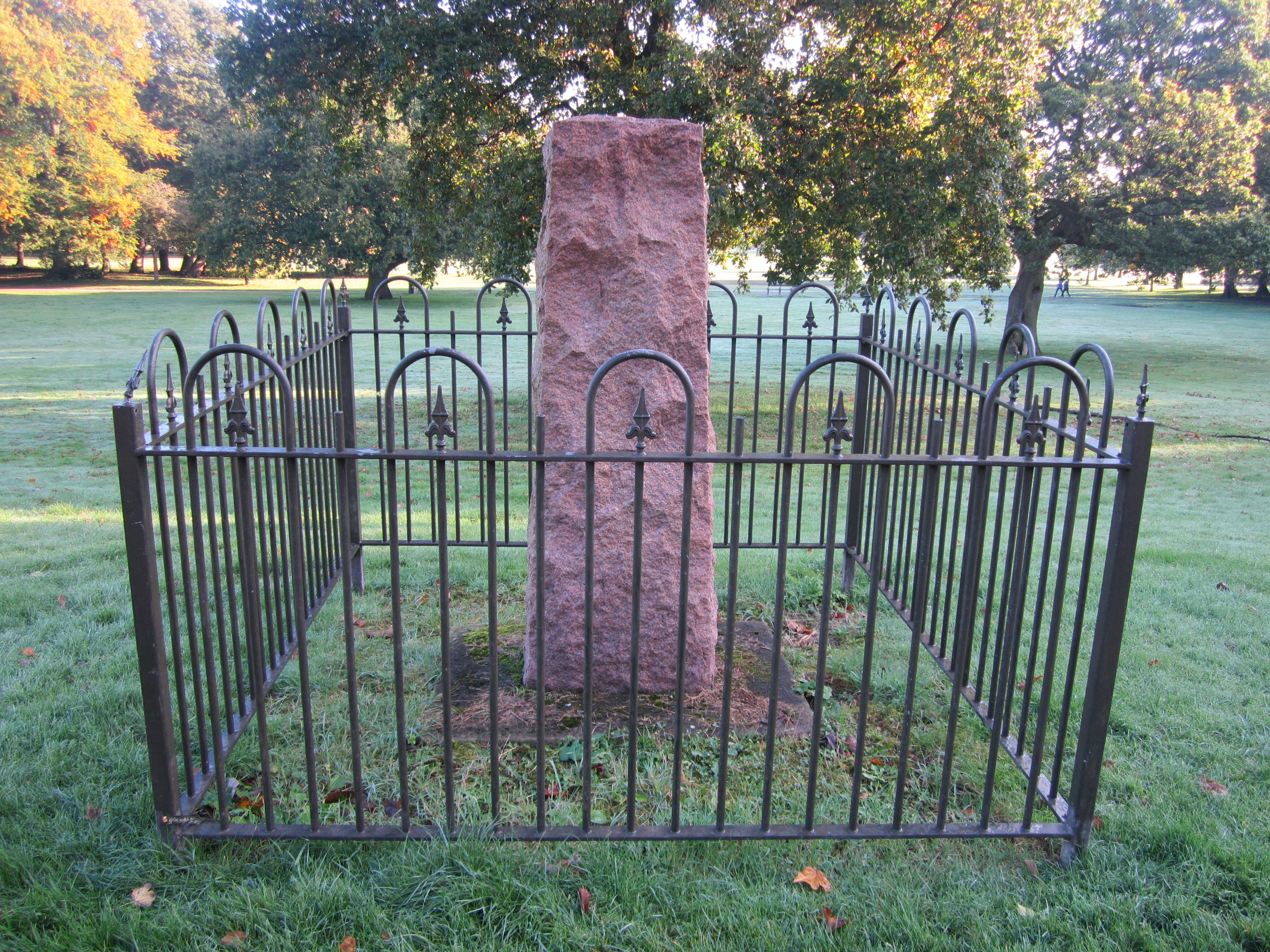 Photo taken at Birkenhead Park, Merseyside, England.